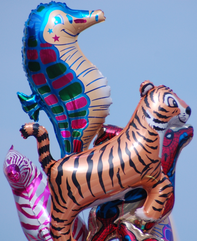 Metallized nylon (Mylar) Flexmetal animal-shaped balloons, author myself. For article Balloon.